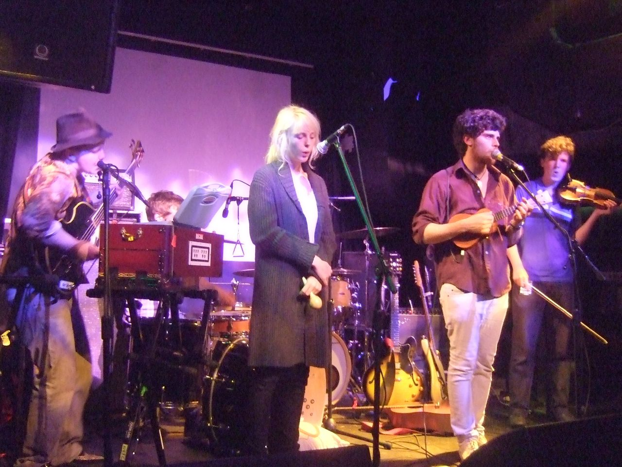 Noah and the Whale Bristol Thekla 18th October 2007